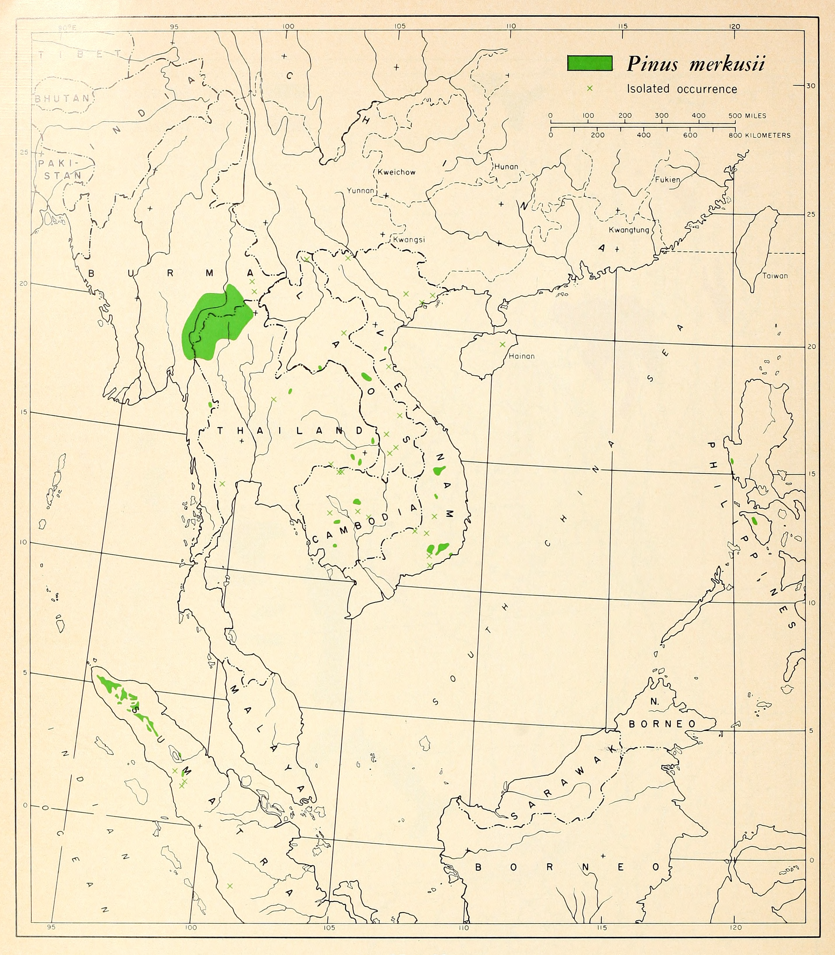 Map 39 Pinus merkusii sensu lato (including Pinus latteri) distribution